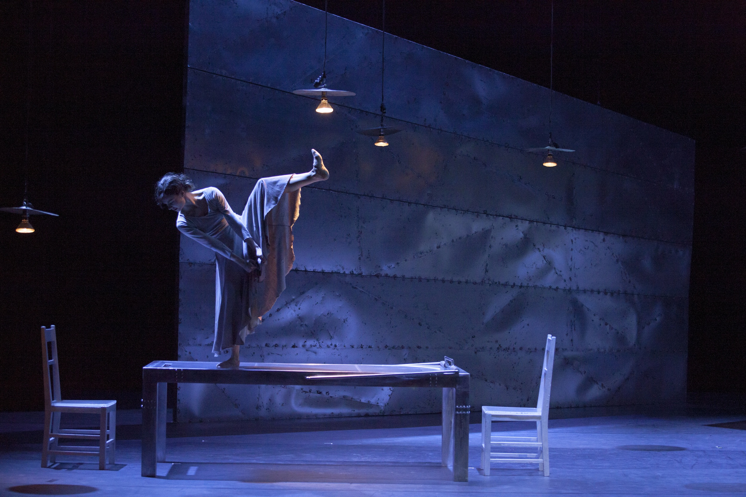 "Returning Waves" by Emil Wesołowski, Polish National Ballet, dancer: Marta Fiedler